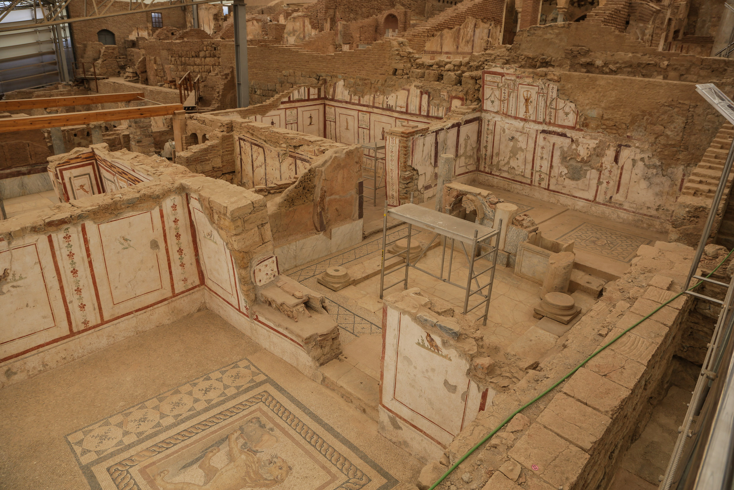 The so-called 'terrace houses' showing an example of wealthy family life in Ephesus during the Roman period.